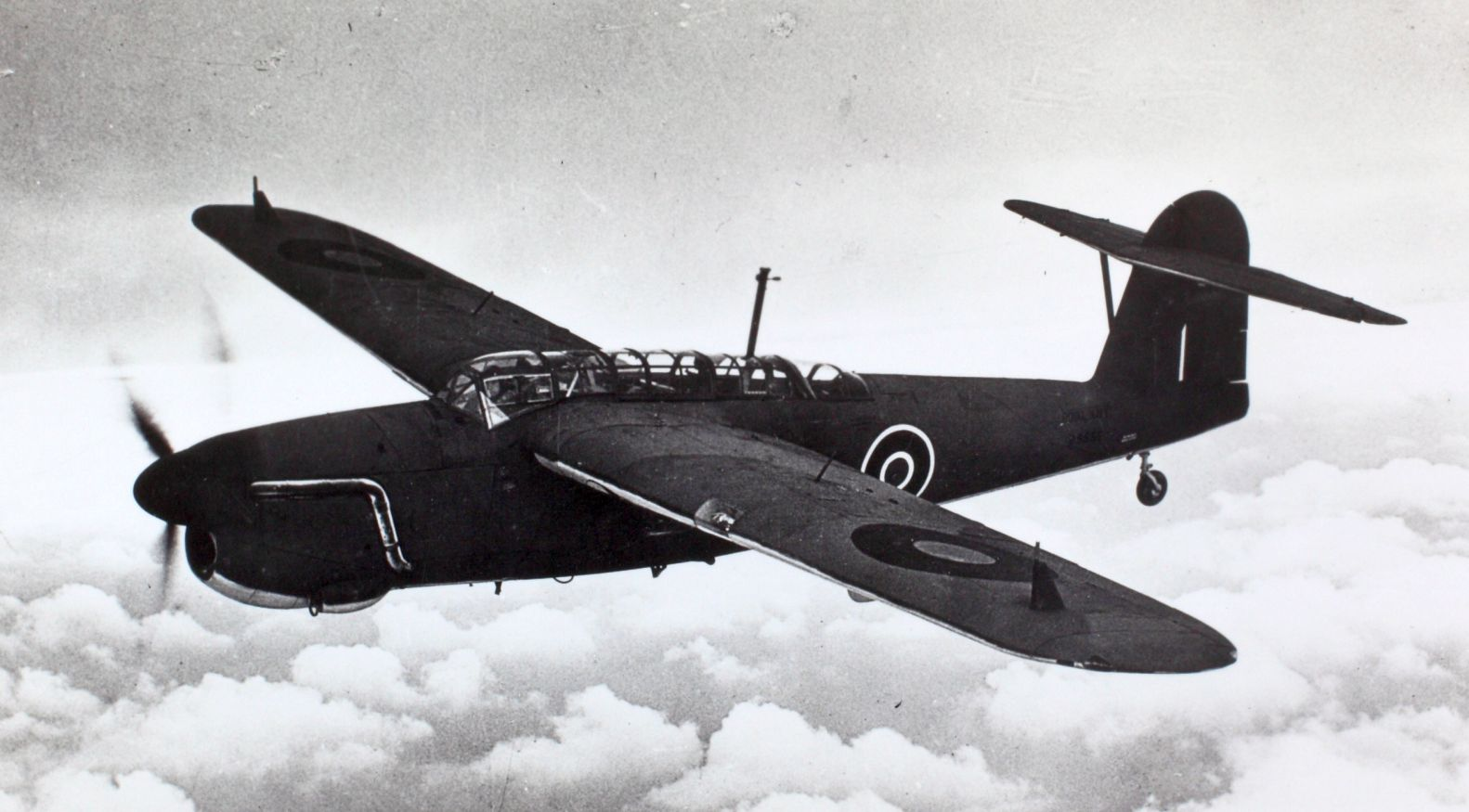 Image from the Charles Daniels Photo Collection album "British Aircraft." SOURCE INSTITUTION: San Diego Air and Space Museum Archive